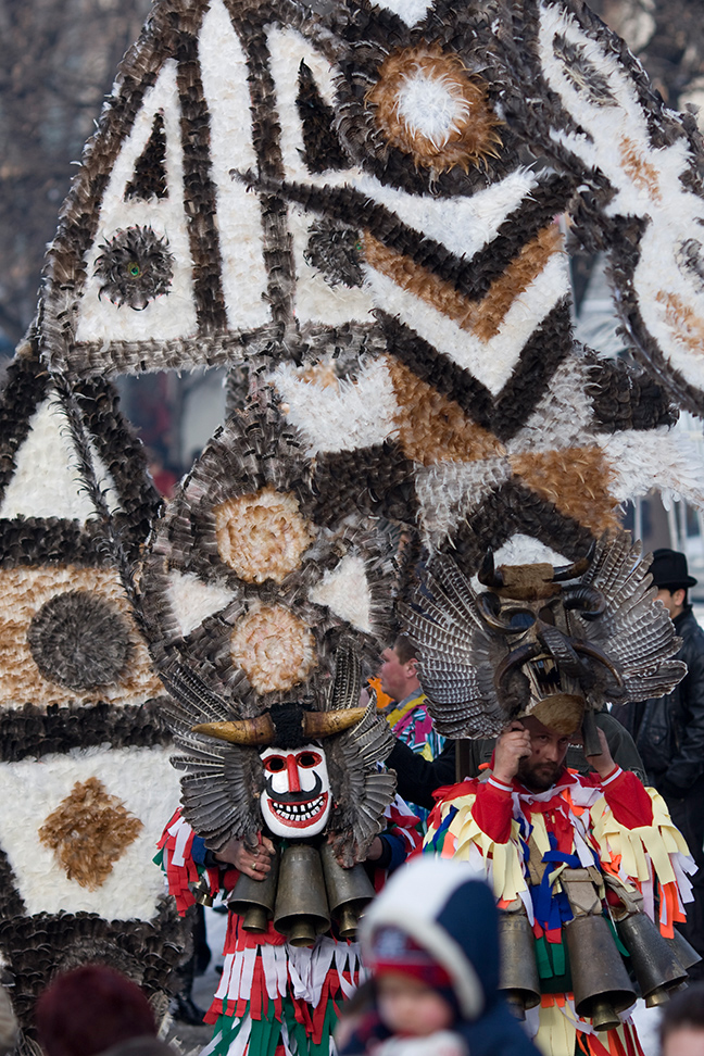 Kuker masks. XIX International Festival of Masquerade Games Pernik, 2010